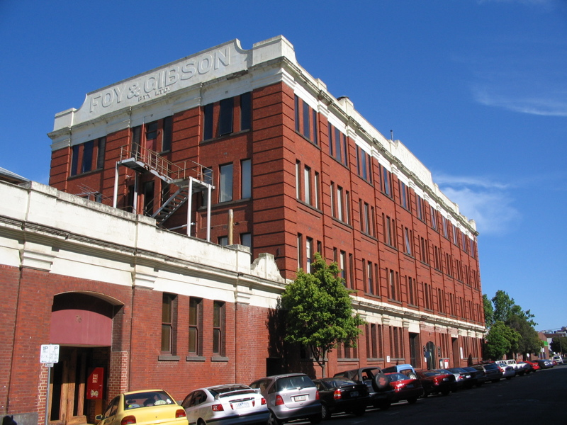 One of the buildings formerly occupied by the Foy & Gibson department store. Foy & Gibson built and occupied many on the large redbrick warehouses, factories, and showrooms in Oxford Street.